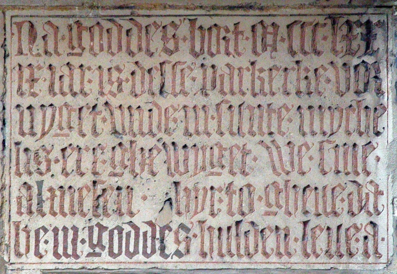 Braunschweig, Germany: St. Michael’s: Inscription regarding consecration in 1379.